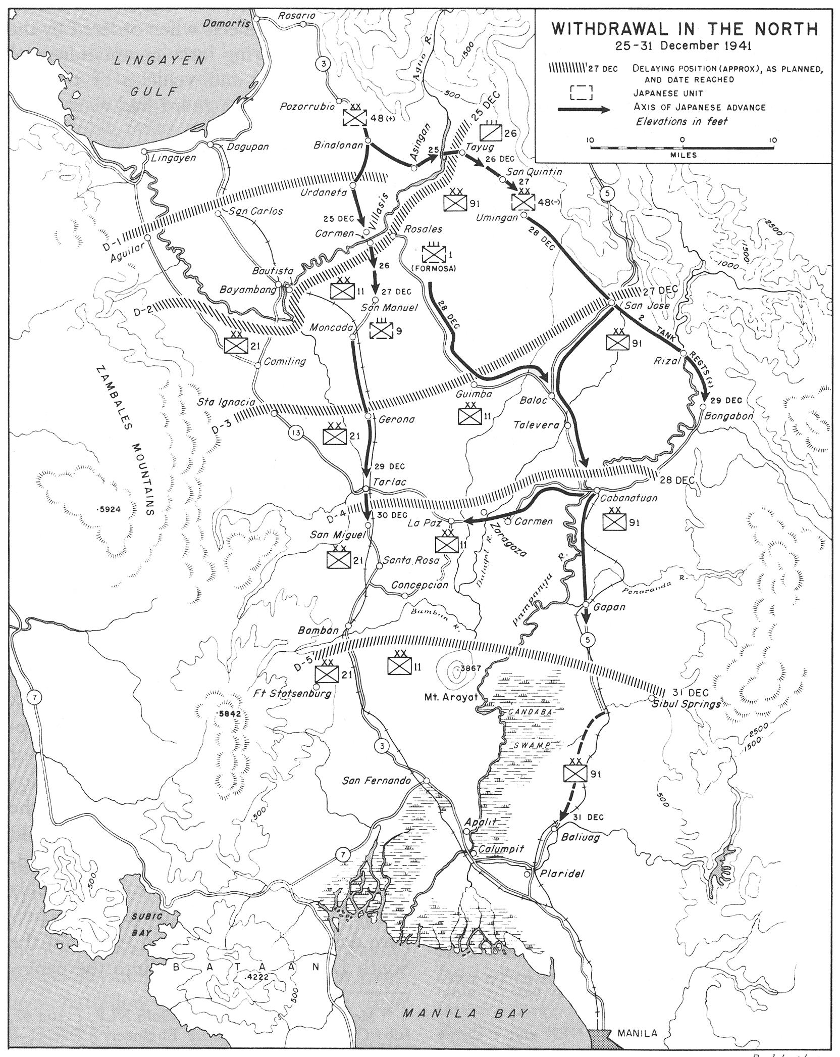 Withdrawal of the U.S. Army in the northern Philippines following the Japanese Invasion of Lingayen Gulf in December 1941